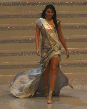 Miss France 2007 Rachel Legrain-Trapani. Photo taken in Miss World 2007, Sanya 1/12/07.